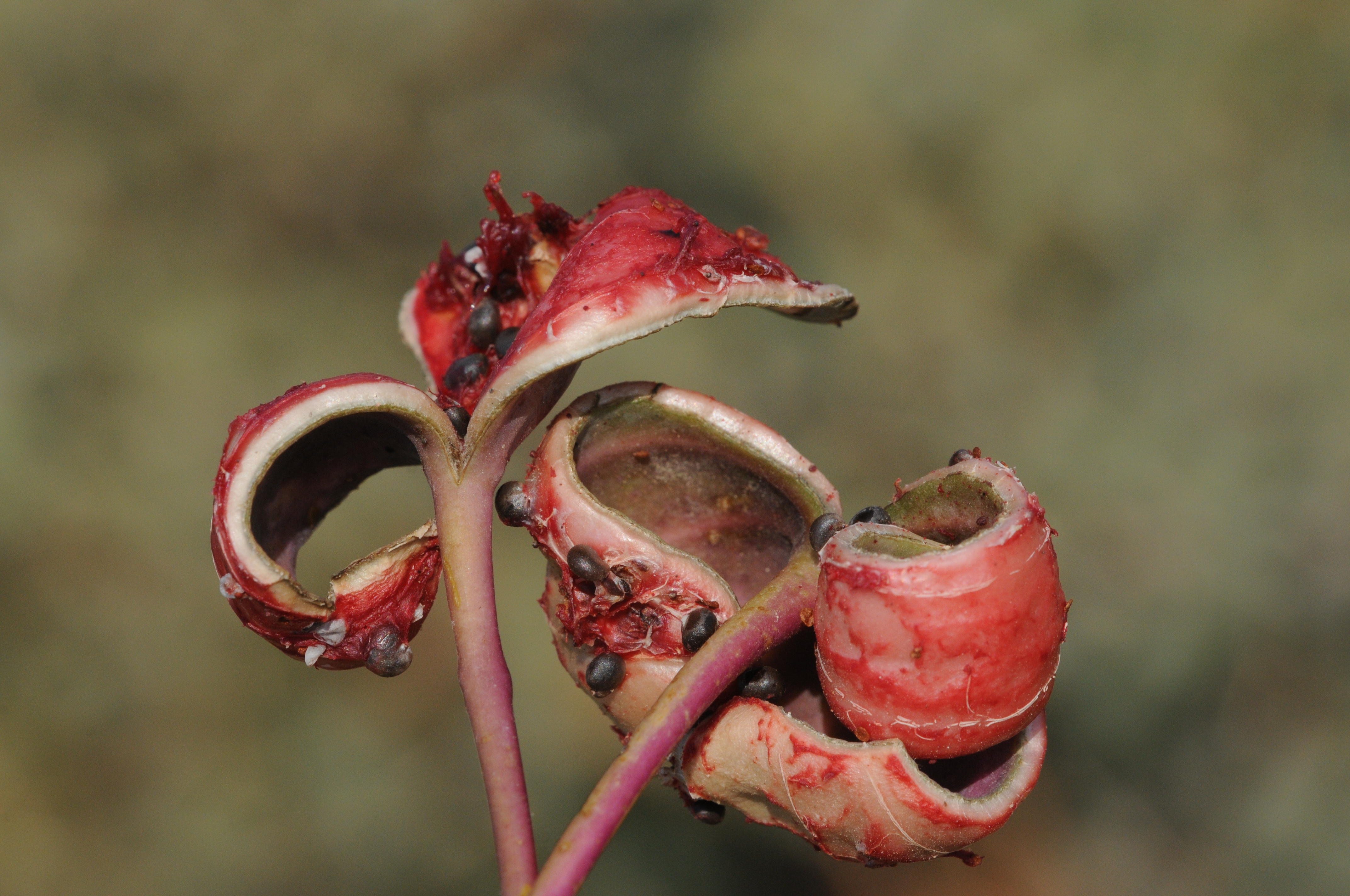 View of ripened and sprinkled fruit of caper (Capparis ovata DESF var. palaestina ZOHARY). Birecik, Sanliurfa - Turkey. 330 m.